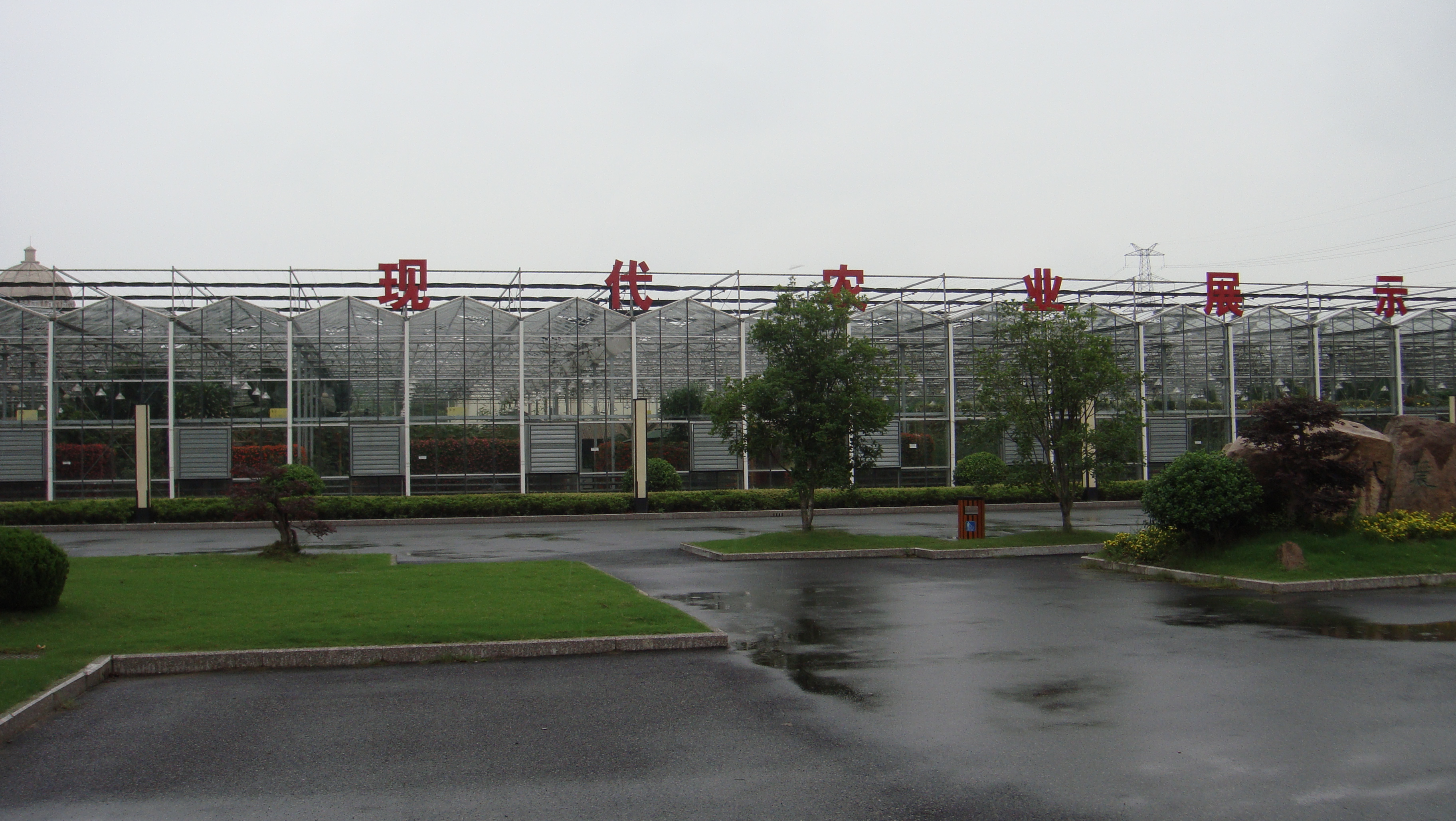 The Agricultural Park in Taicang city in Jiangsu province, China